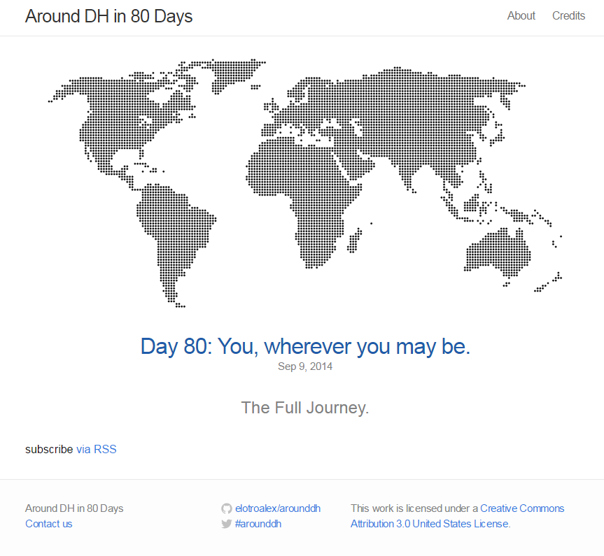 Screenshot of Around DH in 80 Days Digital Humanities website. Each day featured a different DH project around the world to highlight global and diverse DH field.